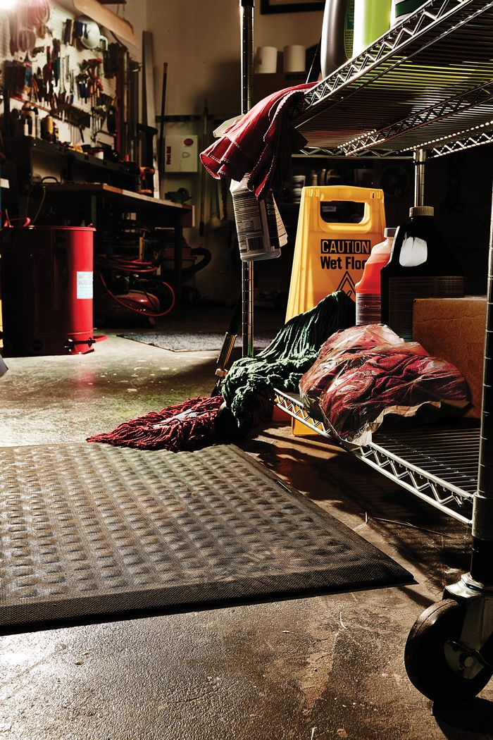 GK_FacilityServices